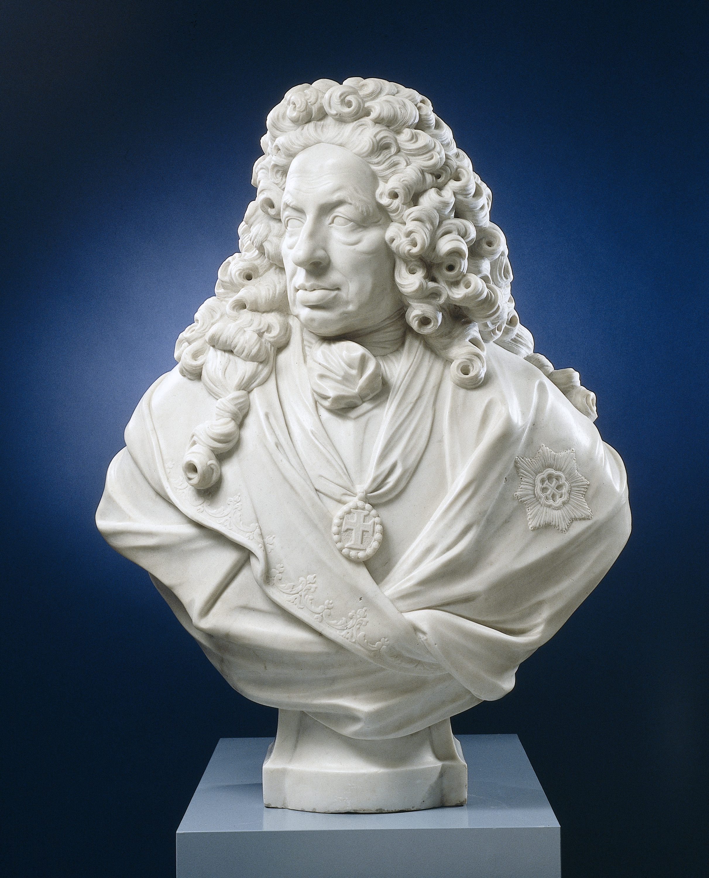 Bust of D. Luís da Cunha, Portuguese diplomat.